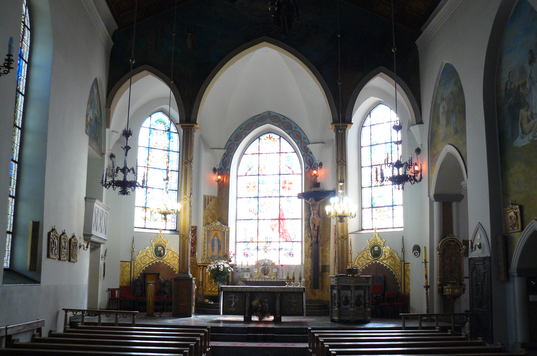 Church NMP in Polczyn Zdroj, interior.